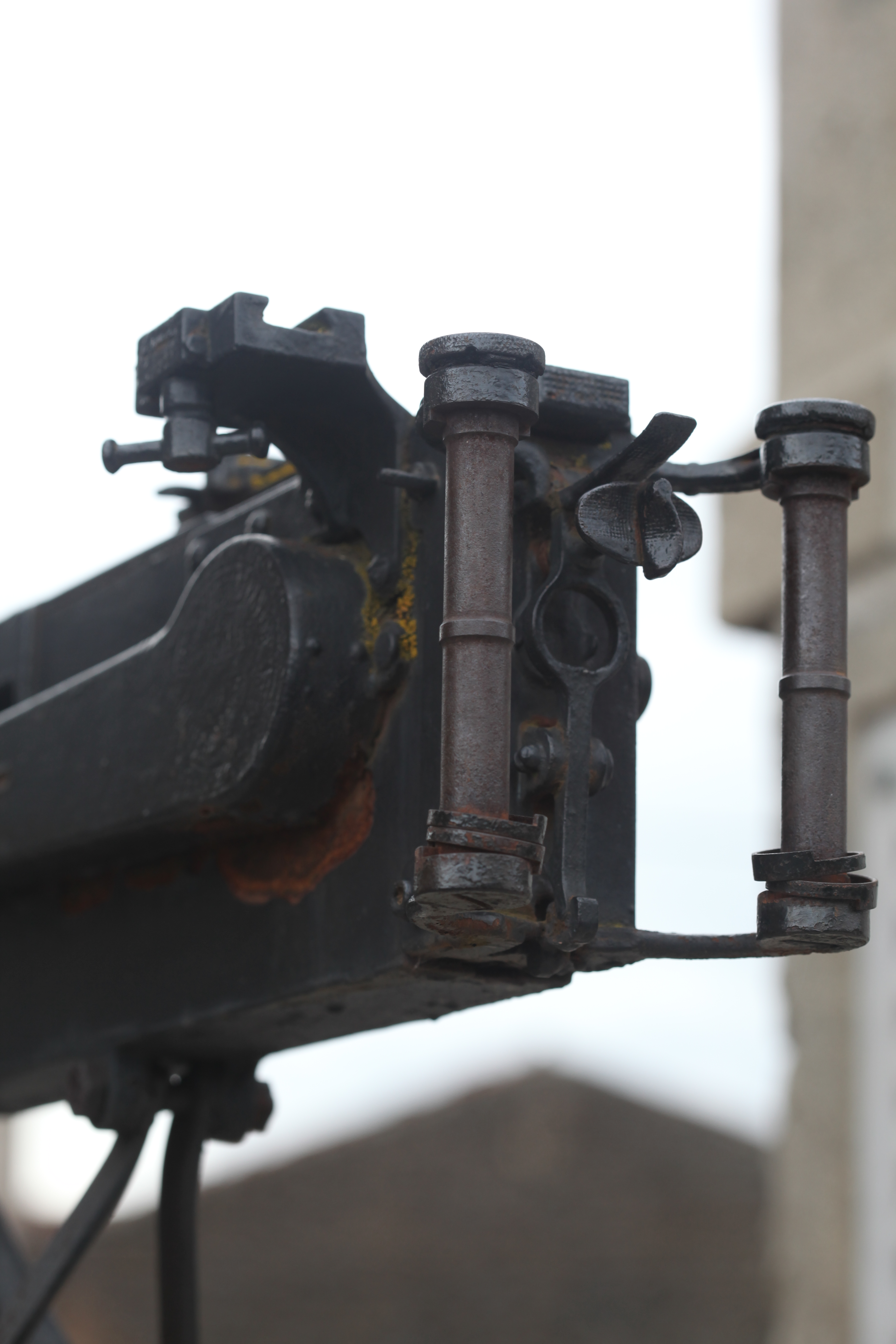 MG 08 Maxim machine gun, Berlin, 1915. On display at Solignac-sur-Loire memorial of the First World War.